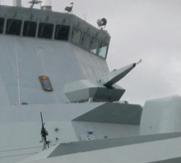 Close-up of the 35 mm Oerlikon Millennium on the HDMS Absalon (L16)